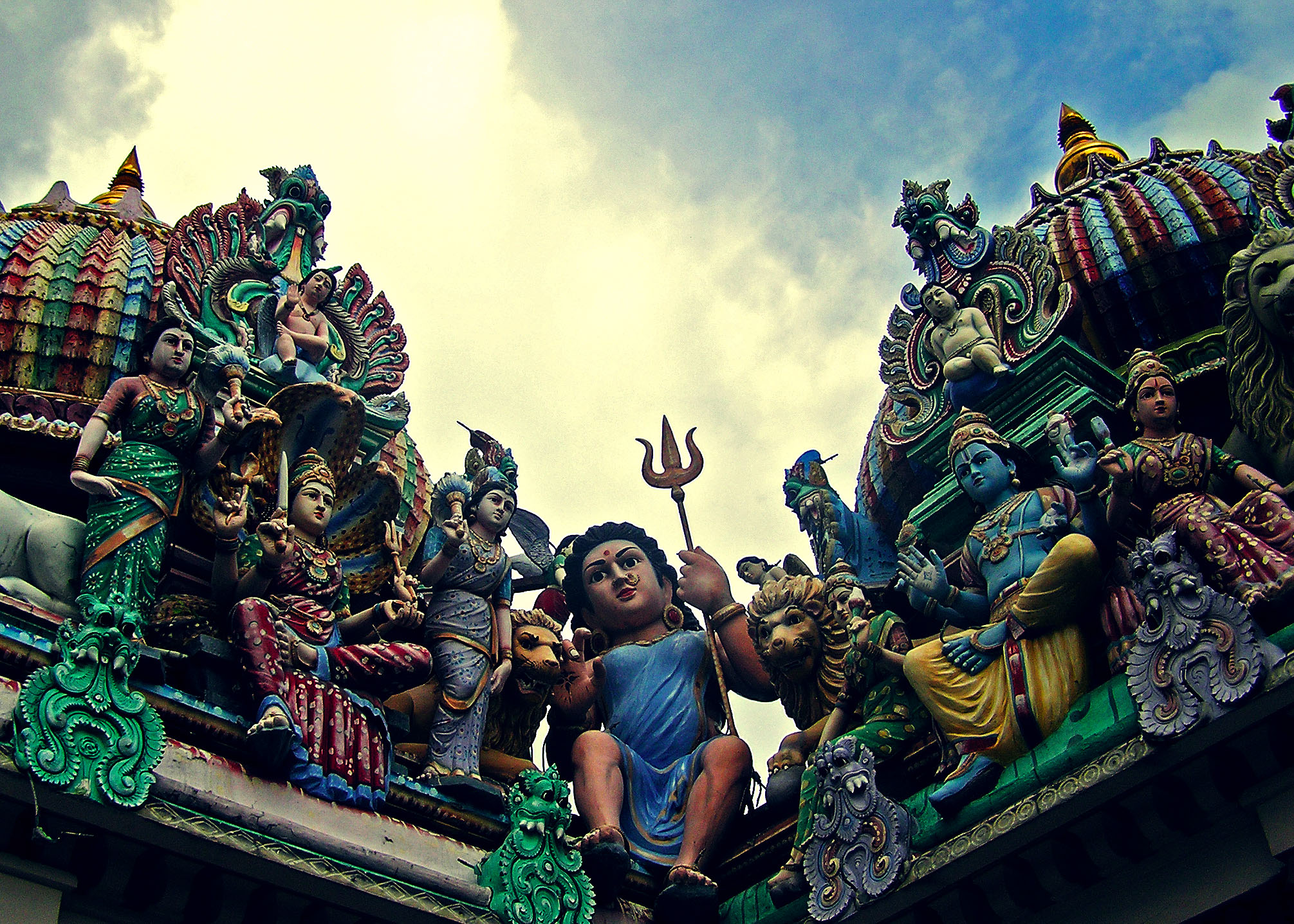 Sculptures in the Sri Mariamman temple in Singapore, showing Mariamman seated in the middle, holding her trident.